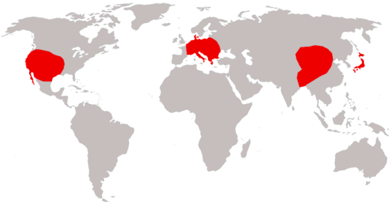 Range of Amynodontidae